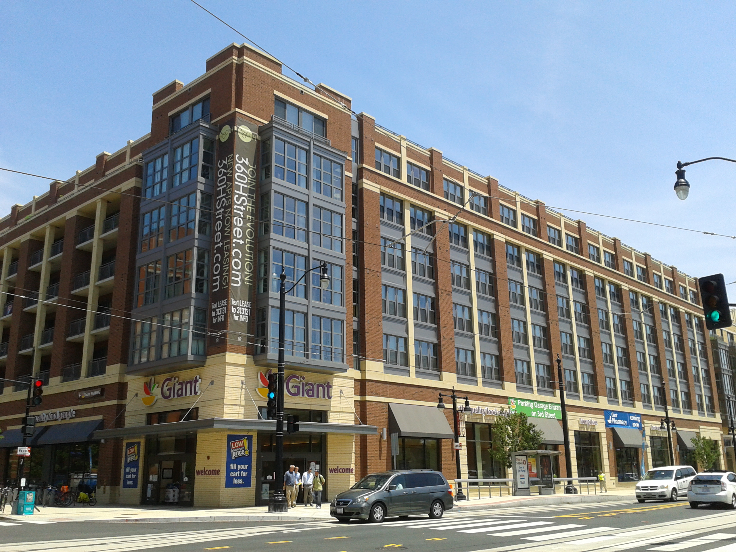 Giant Supermarket at the edge of the H St., NE corridor